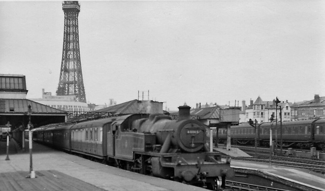 Blackpool Central Station - and Tower. View northward, towards buffer-stops; terminus of Preston & Wyre (LNW & L&Y Joint) main lines from Preston via Kirkham & Wesham (direct via Marton or via Lytham). This major station was closed 2/11/64 and the line cut back to Blackpool South, later the direct line to Blackpool South from Kirkham being closed on 13/2/67. Blackpool North was made the main terminus. (The Stanier 3P 2-6-2T is on Station Pilot work).